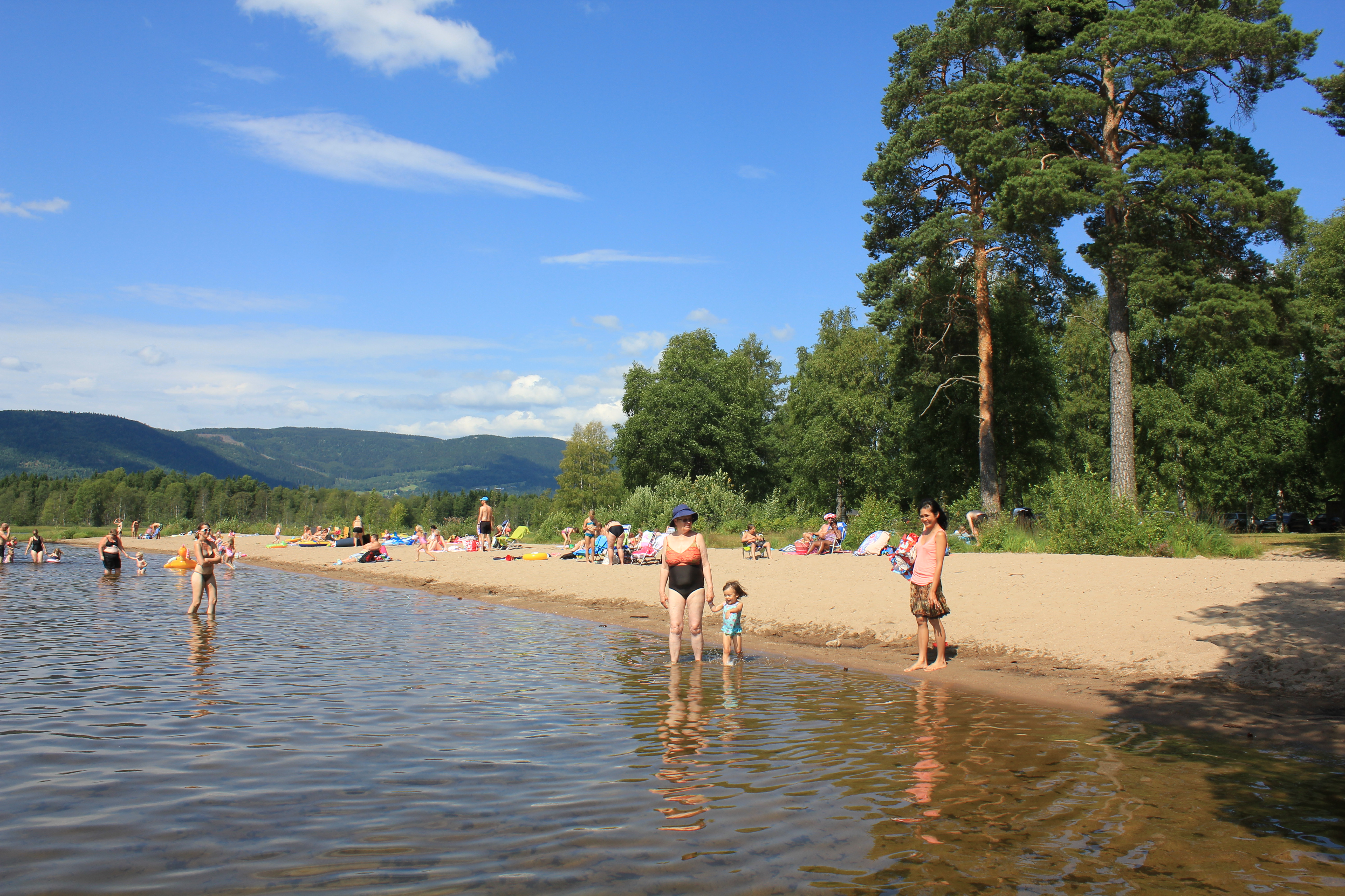 Åsanden Beach by Lake Hurdal, Norway.